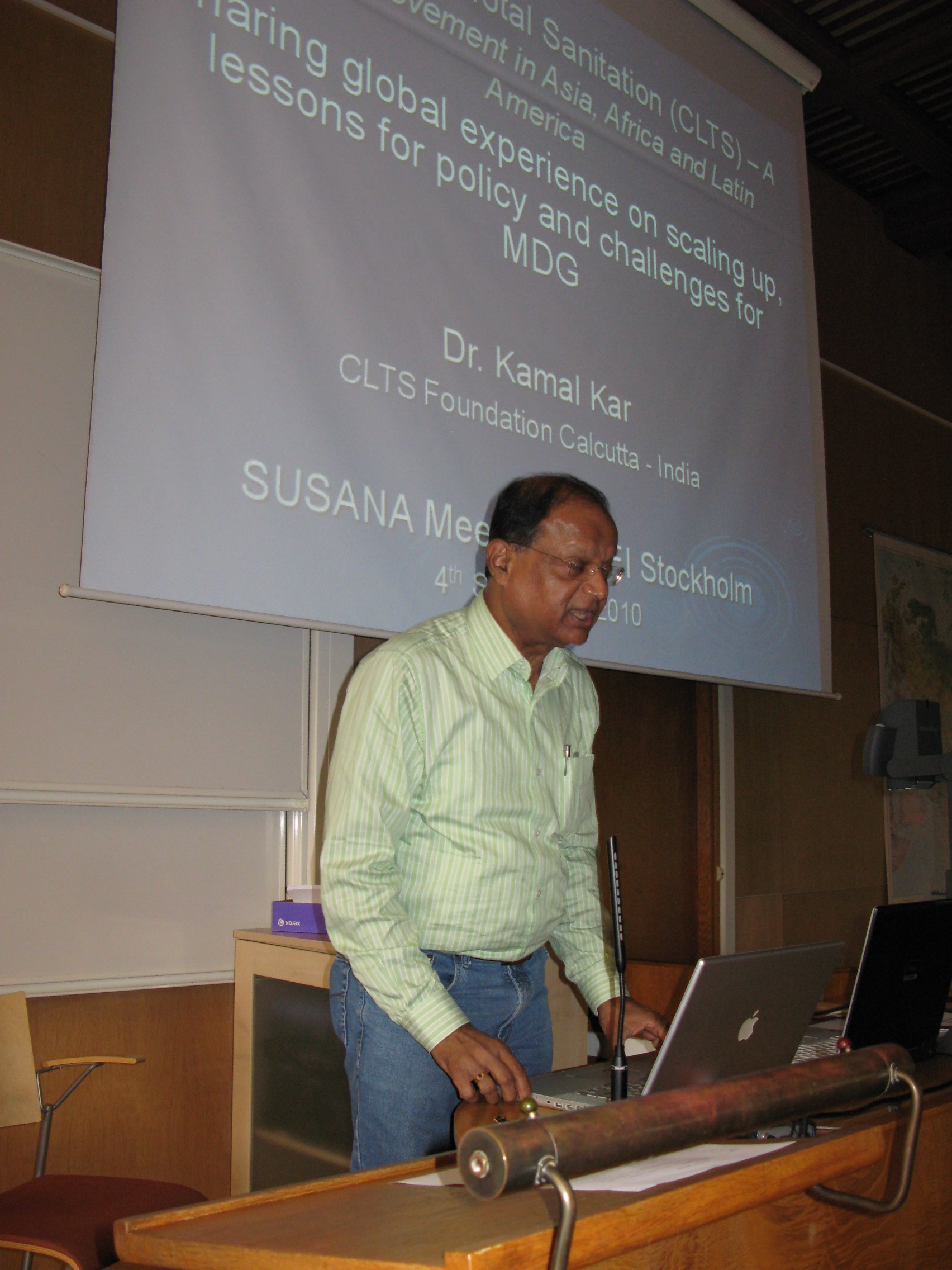 12th SuSanA Meeting (in Stockholm prior to World Water Week)